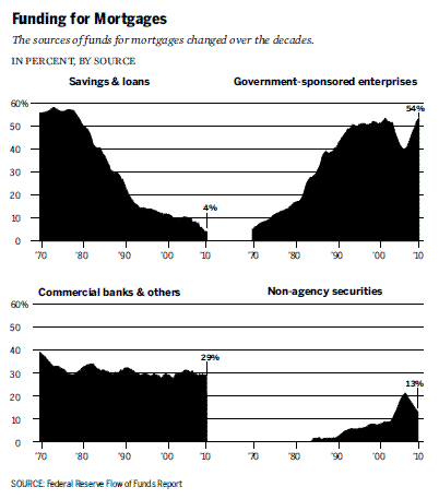 How the sources for funds for mortgages in the US have changed over the decades.